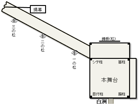 (This is the translated text.) This image is about the state of the Noh theater. "Excel" made with "paint" to processed.